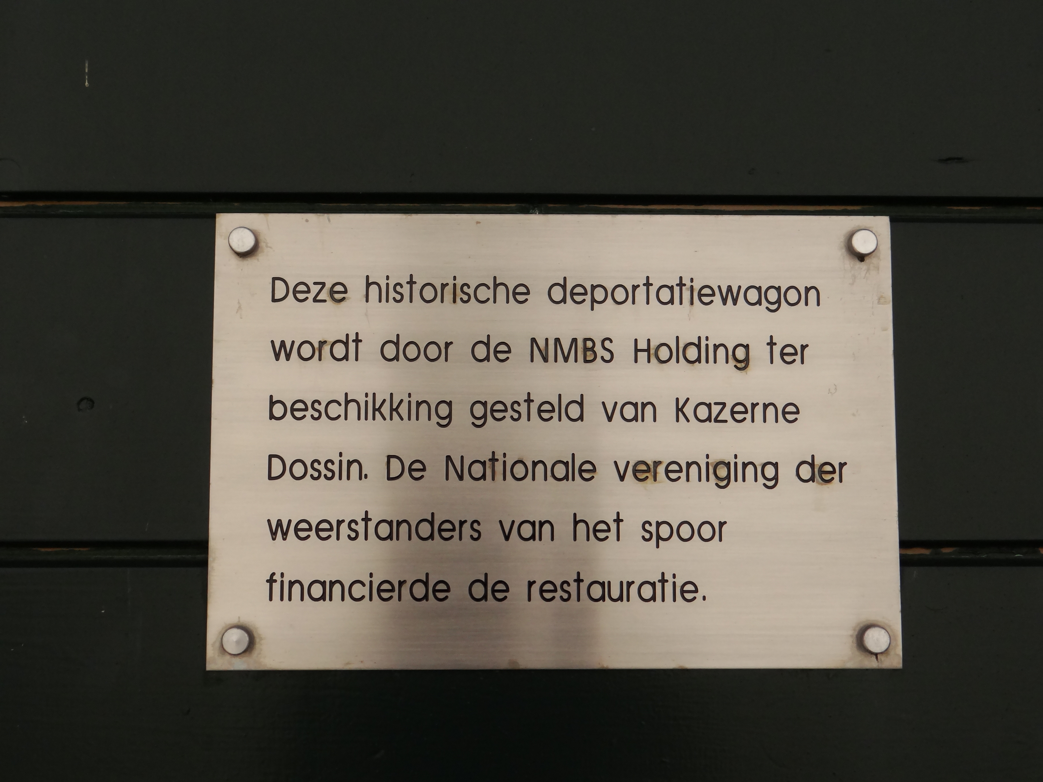 Plaque of the wagon used from 1943 in order to deport Jewishes and Tzigans, from the "sammellager" (camp) of Mechelen to Auschwitz and other smaller camps. This wagon is located next to the Museum and Memorial of the Kaserne Dossin